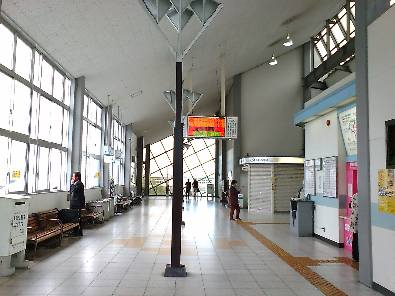 JR Ritto Station Inside